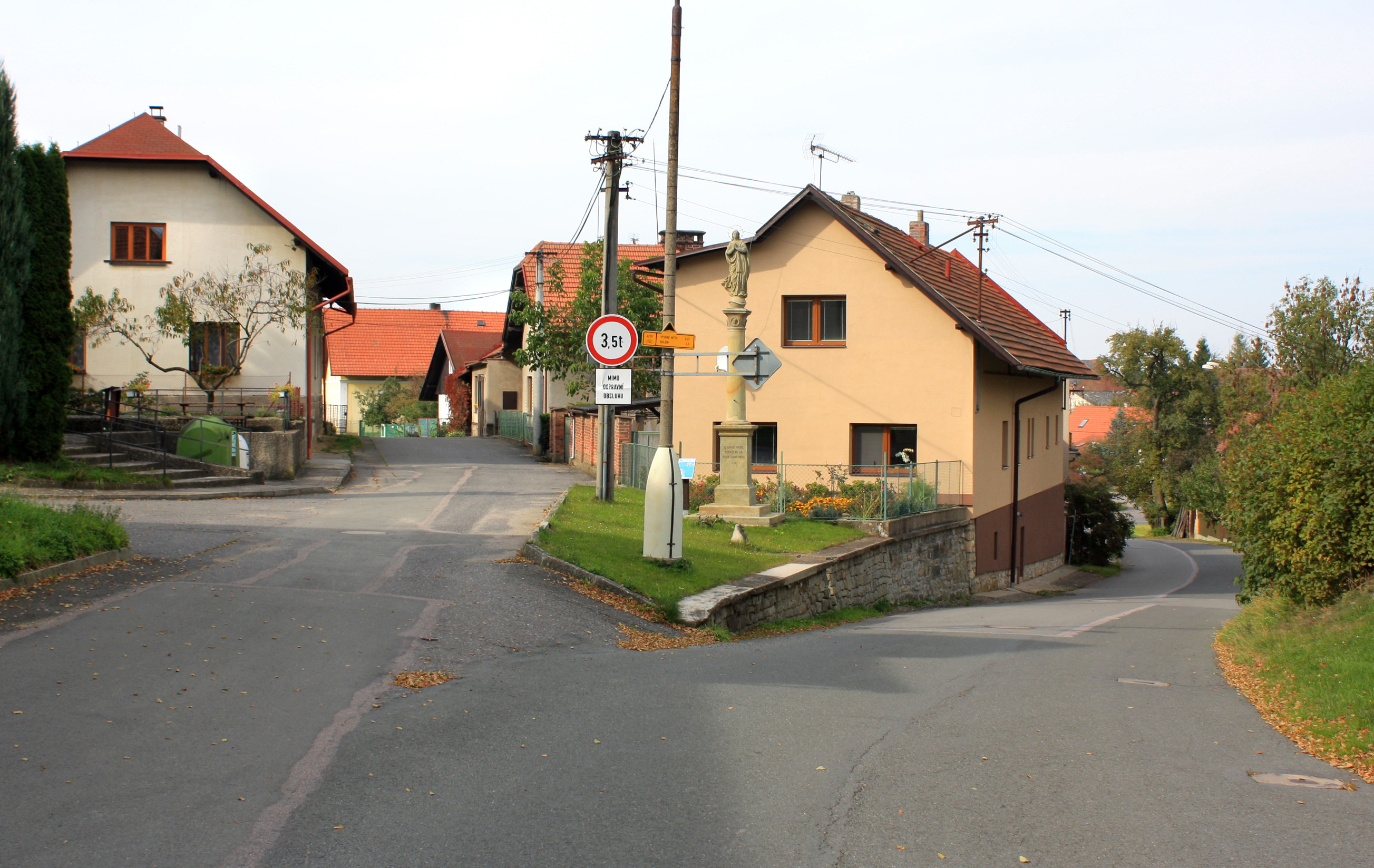 Intersection in Sudslava, Czech Republic